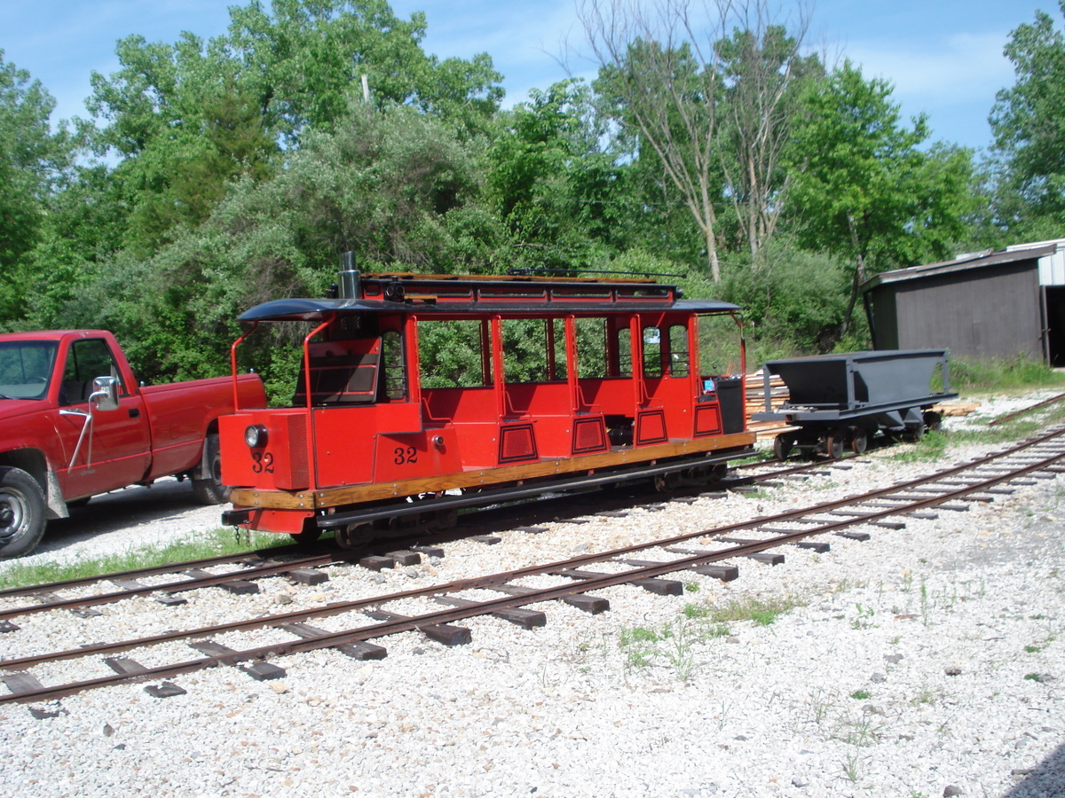 Wildlife Prairie Park near Peoria, Illinois I noticed that the car I was riding on was built in Wisconsin Dells, WI. I rode on a narrow gauge railroad when I was there a couple of years ago. I need to see if it's the same place that built both train collections.